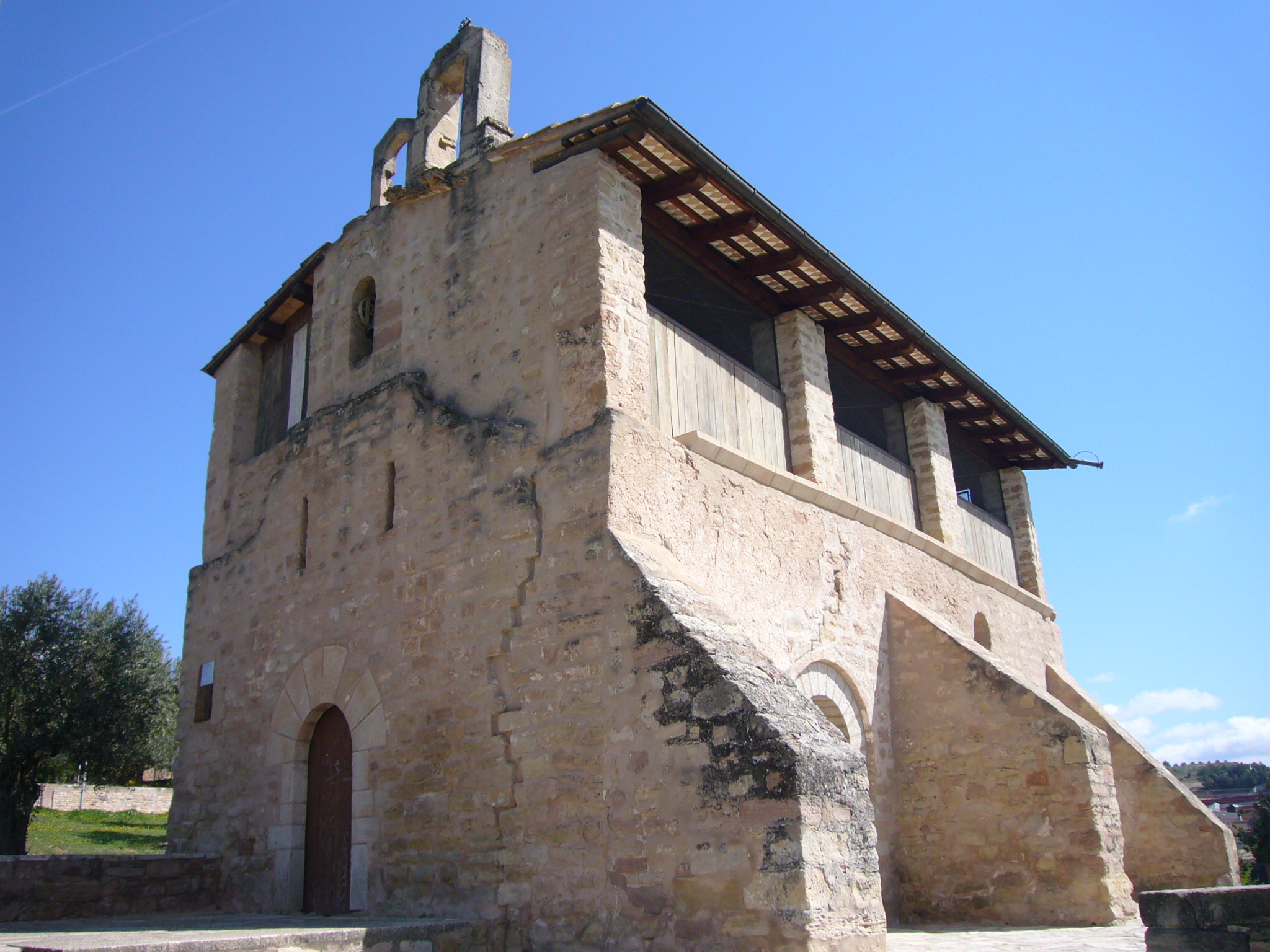 Ermita de Sant Jaume Sesoliveres, Igualada, Catalonia